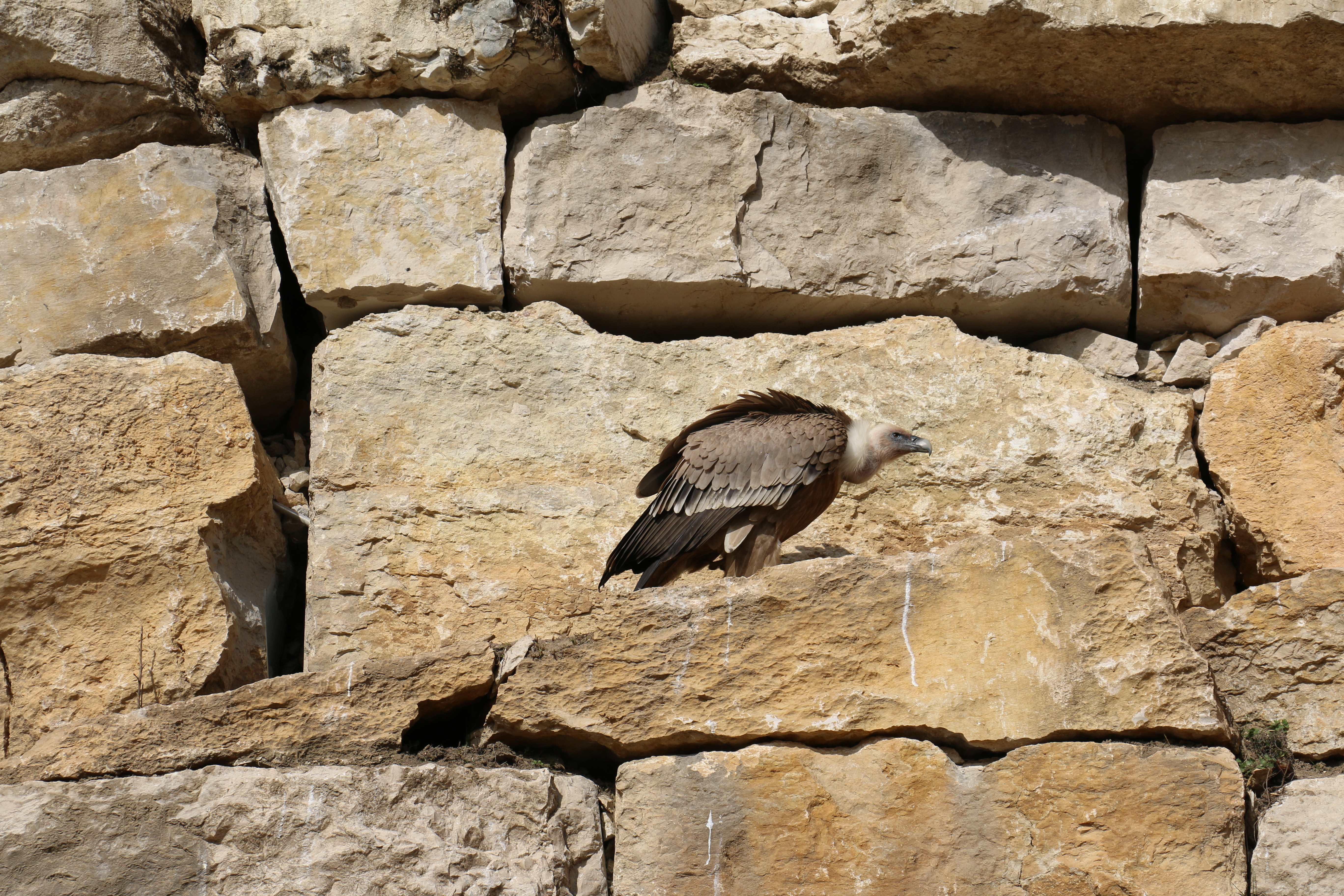 Zoo la Garenne